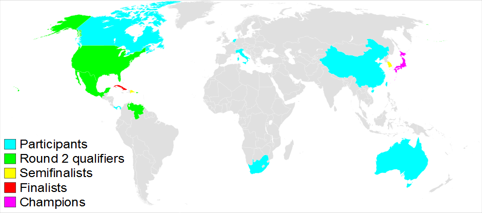 Customized blank map of World Baseball Classic 2006 from Image:BlankMap-World.png.